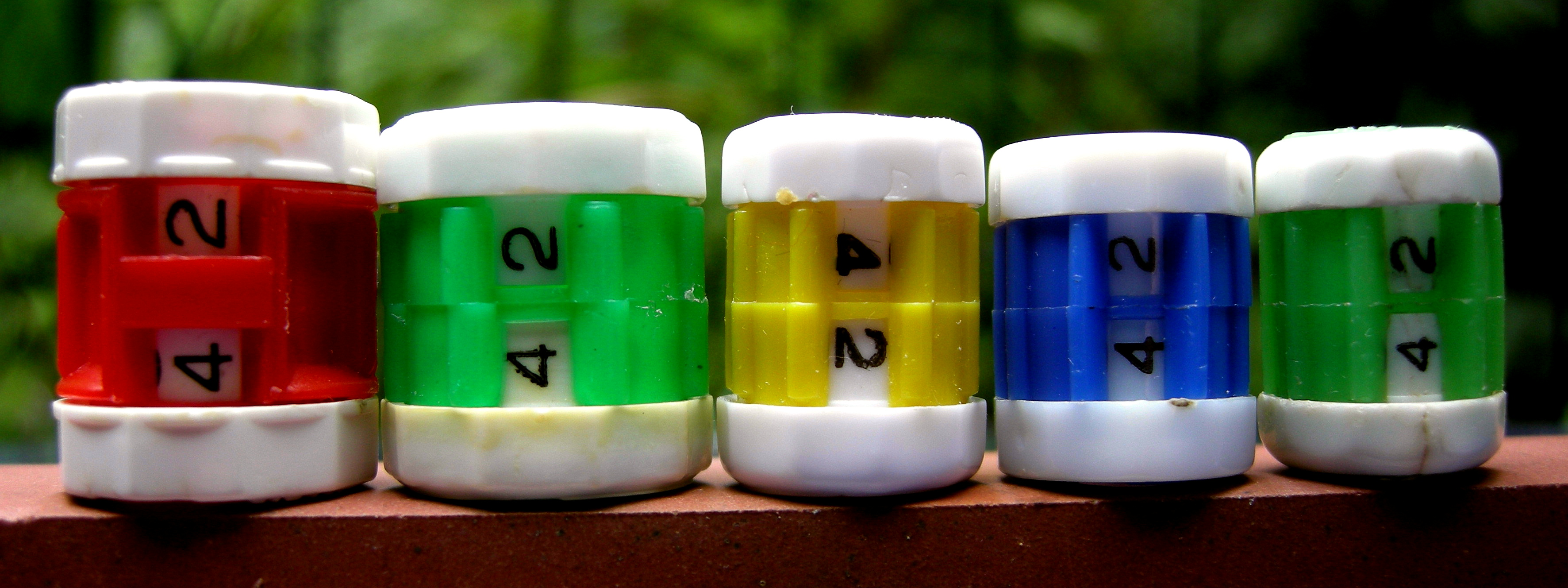 Millwards Ro-Tally row counters: later polygonal version manufactured 1970s. (The one on the left is of different, unknown manufacture).